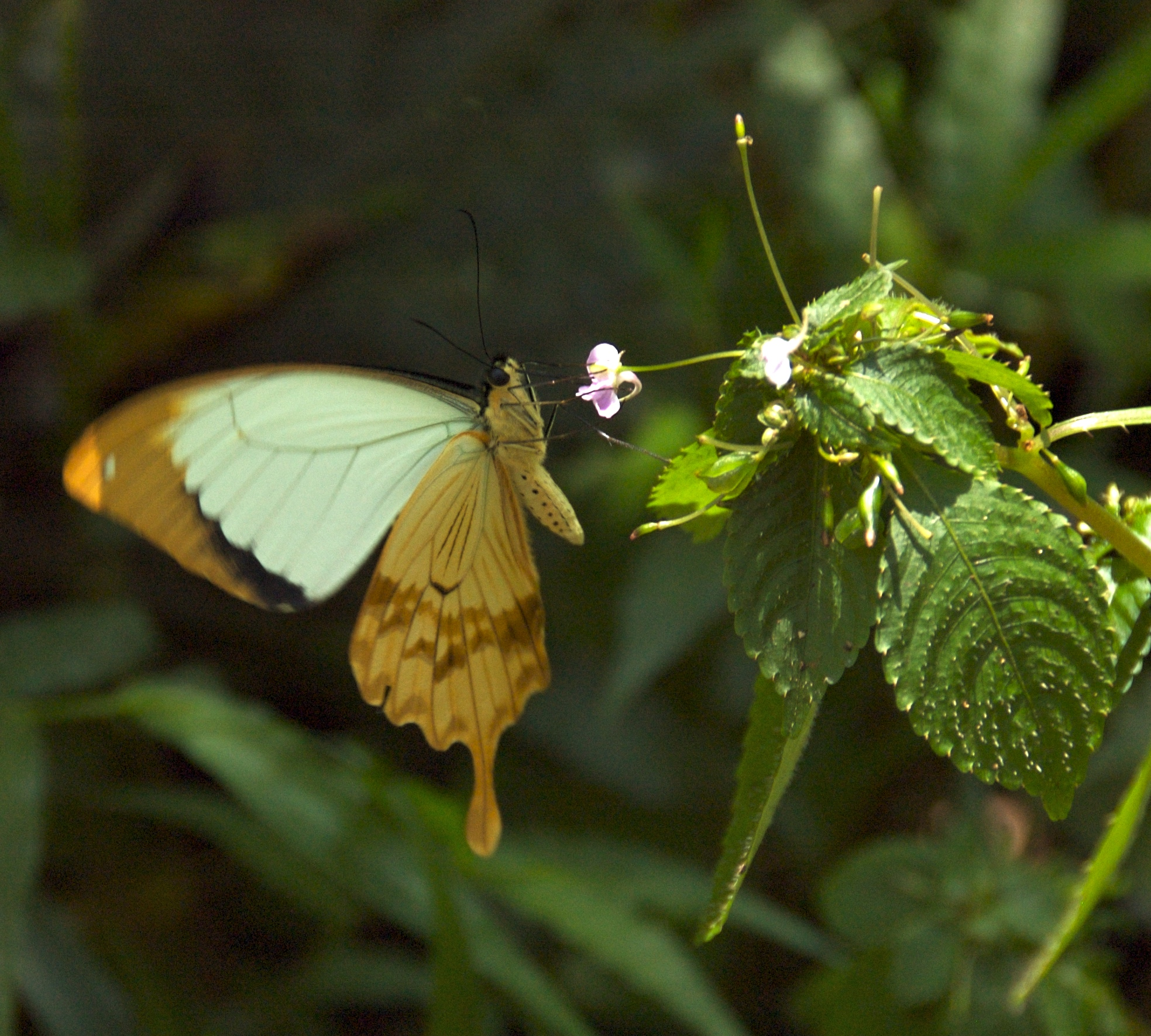 This gorgeous butterfly was kind enough to pose for me. Zeghie Peninsula, Lake Tana, Ethiopia